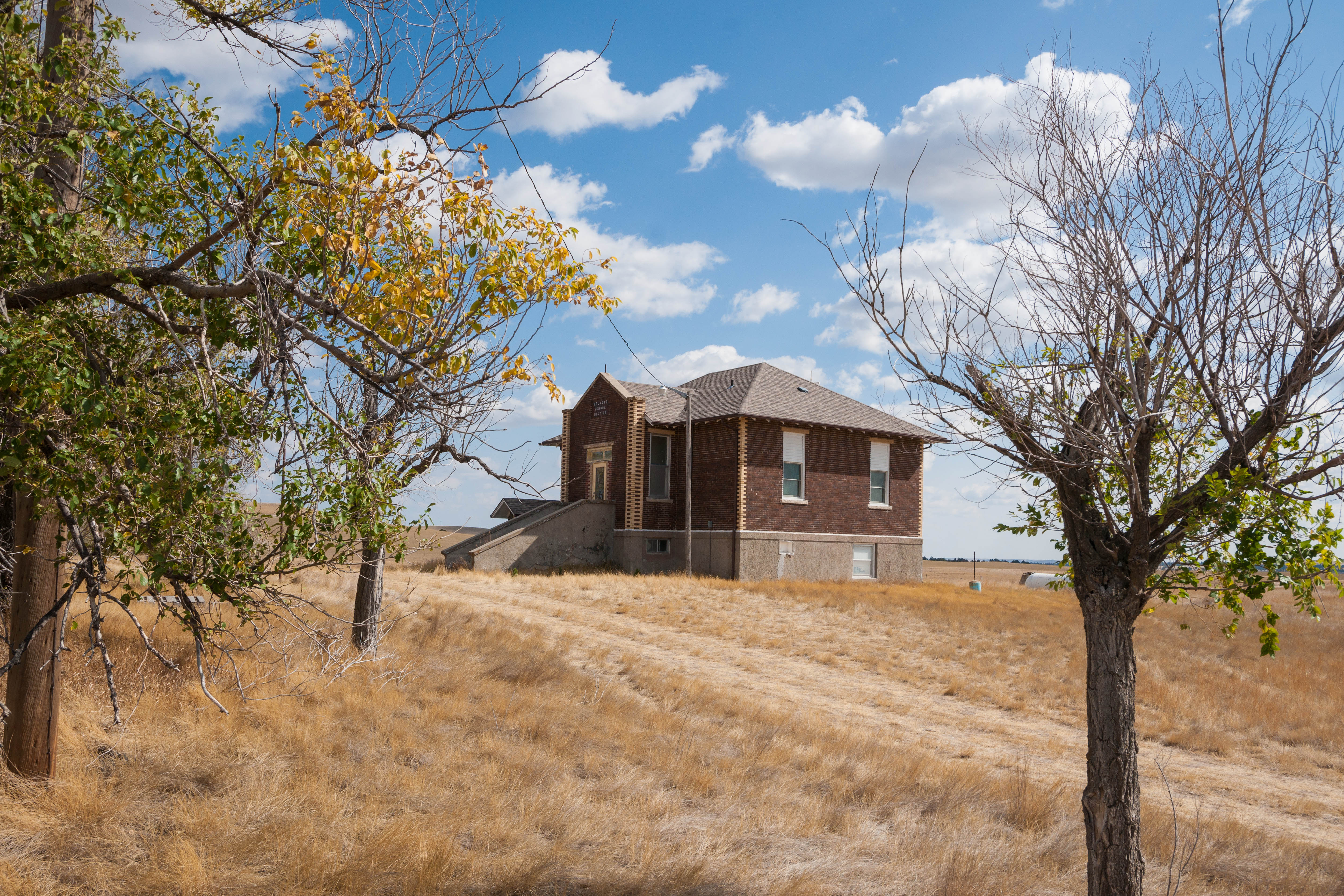 From